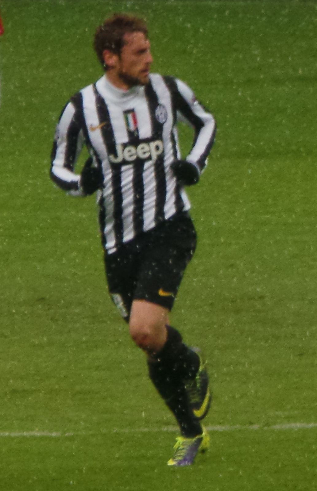 Claudio Marchisio @ GS match